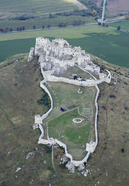 Spiš Castle, Slovakia, castle, aerial photography